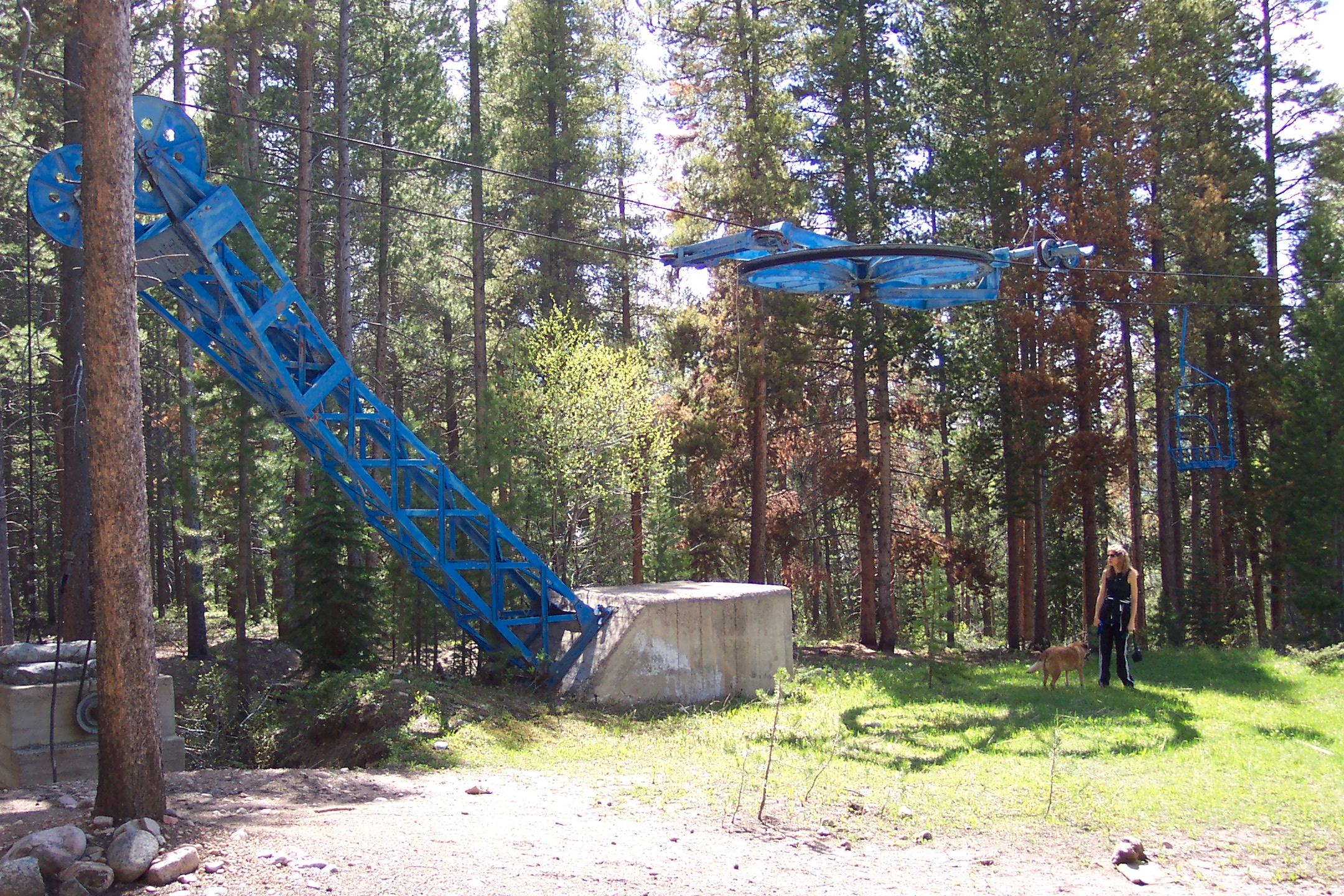 At the top of Ski Idlewild's Double Chair is a rare floating bullwheel